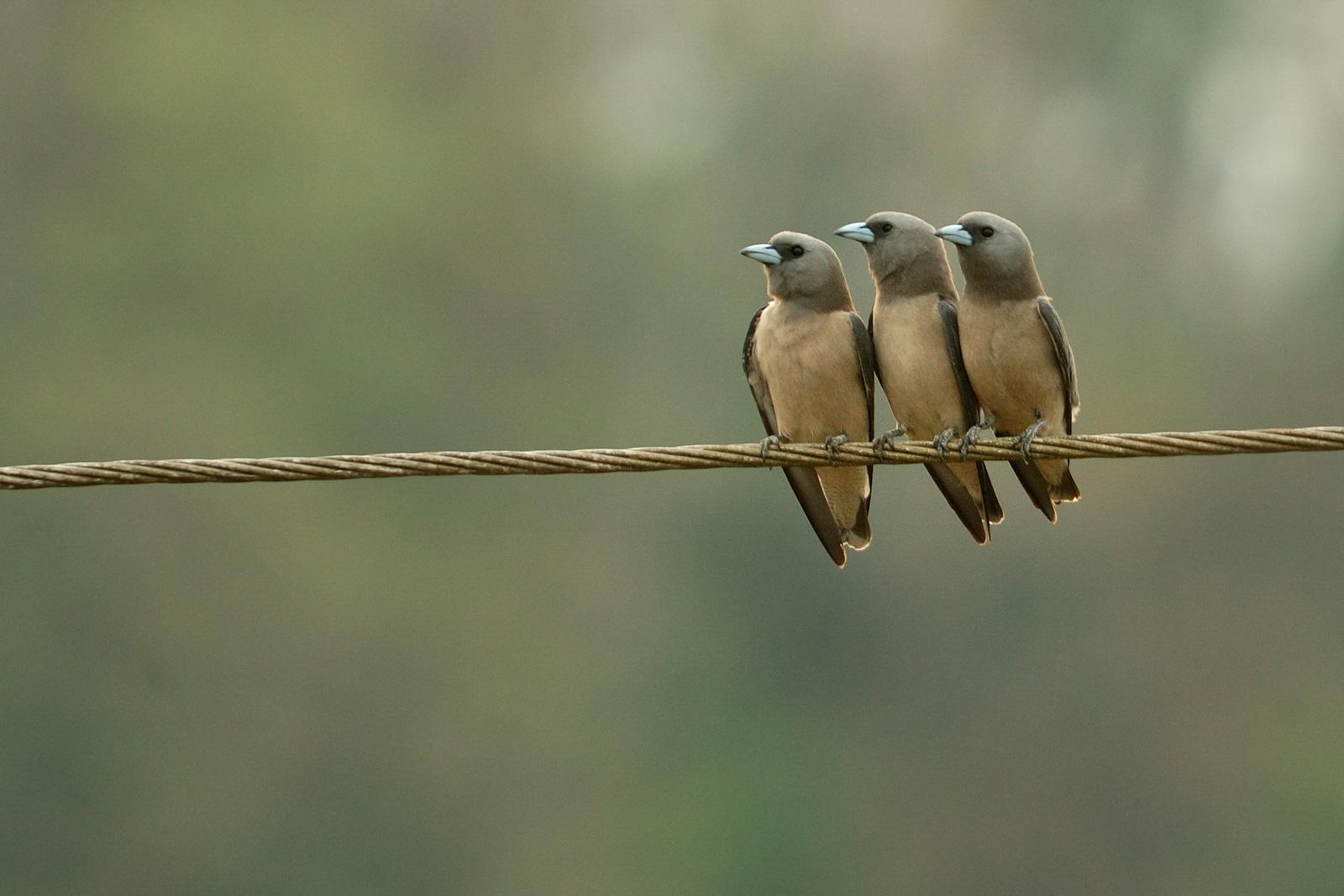 Artamus fuscus